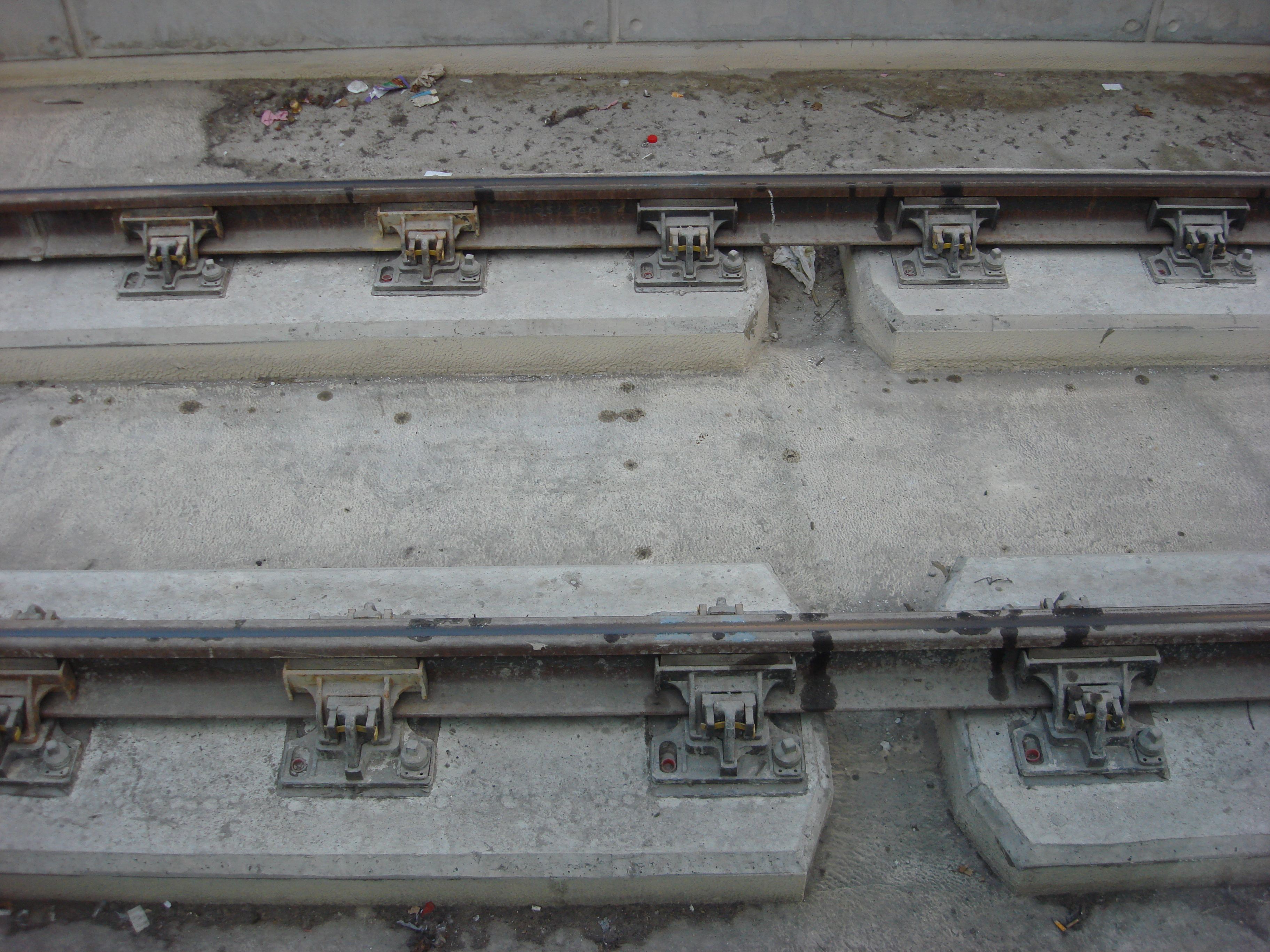 Slab track at St Pancras International railway station